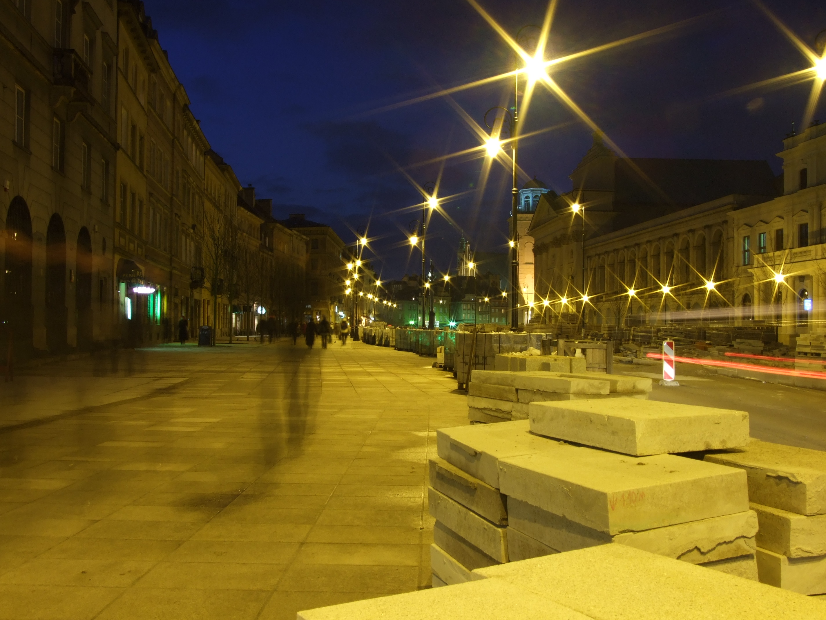 Krakowskie Przedmieście street in Warsaw, PL